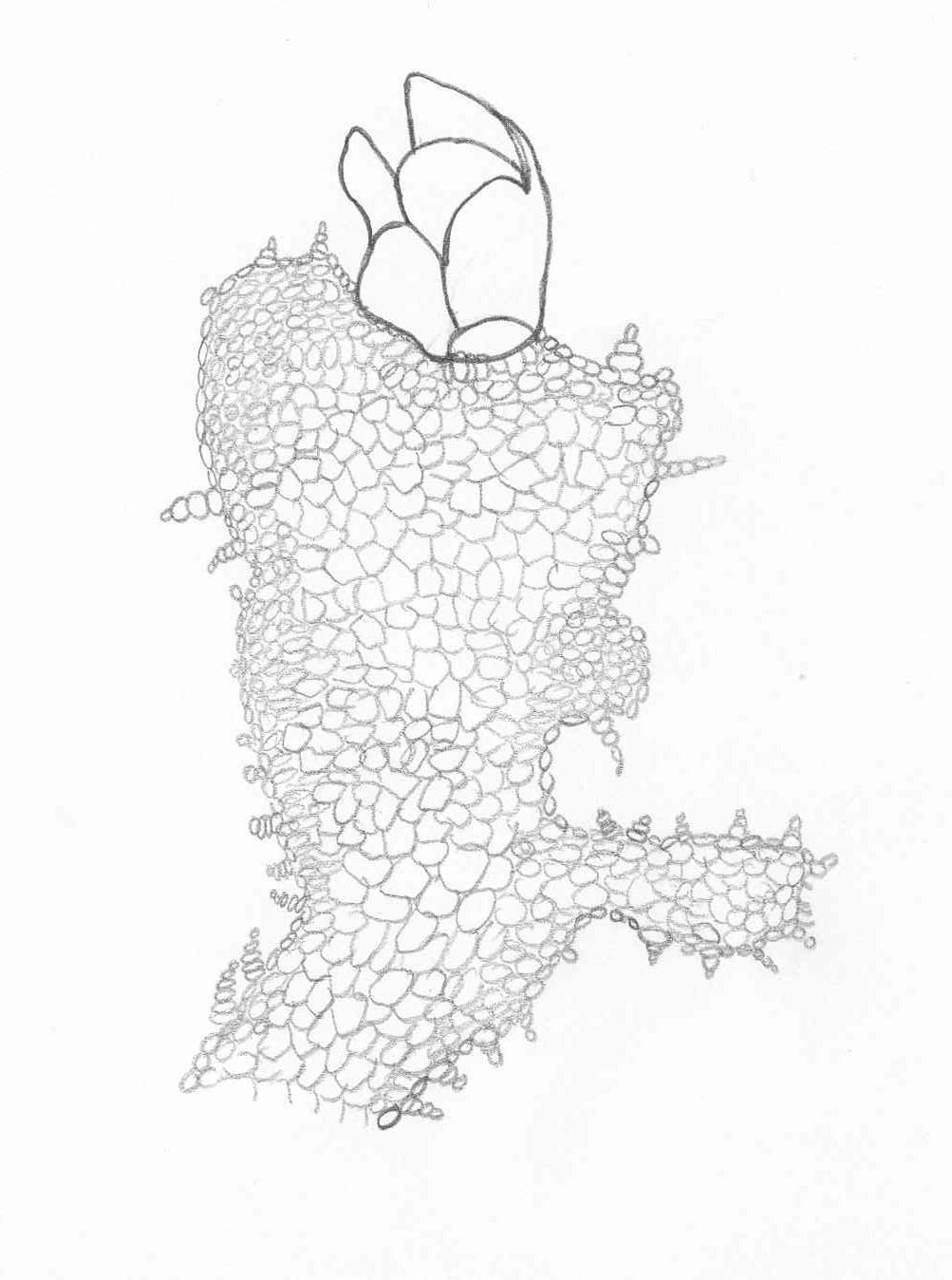 On this image is spathic prothallim of a liverwort Metzgeriopsis pusilla.